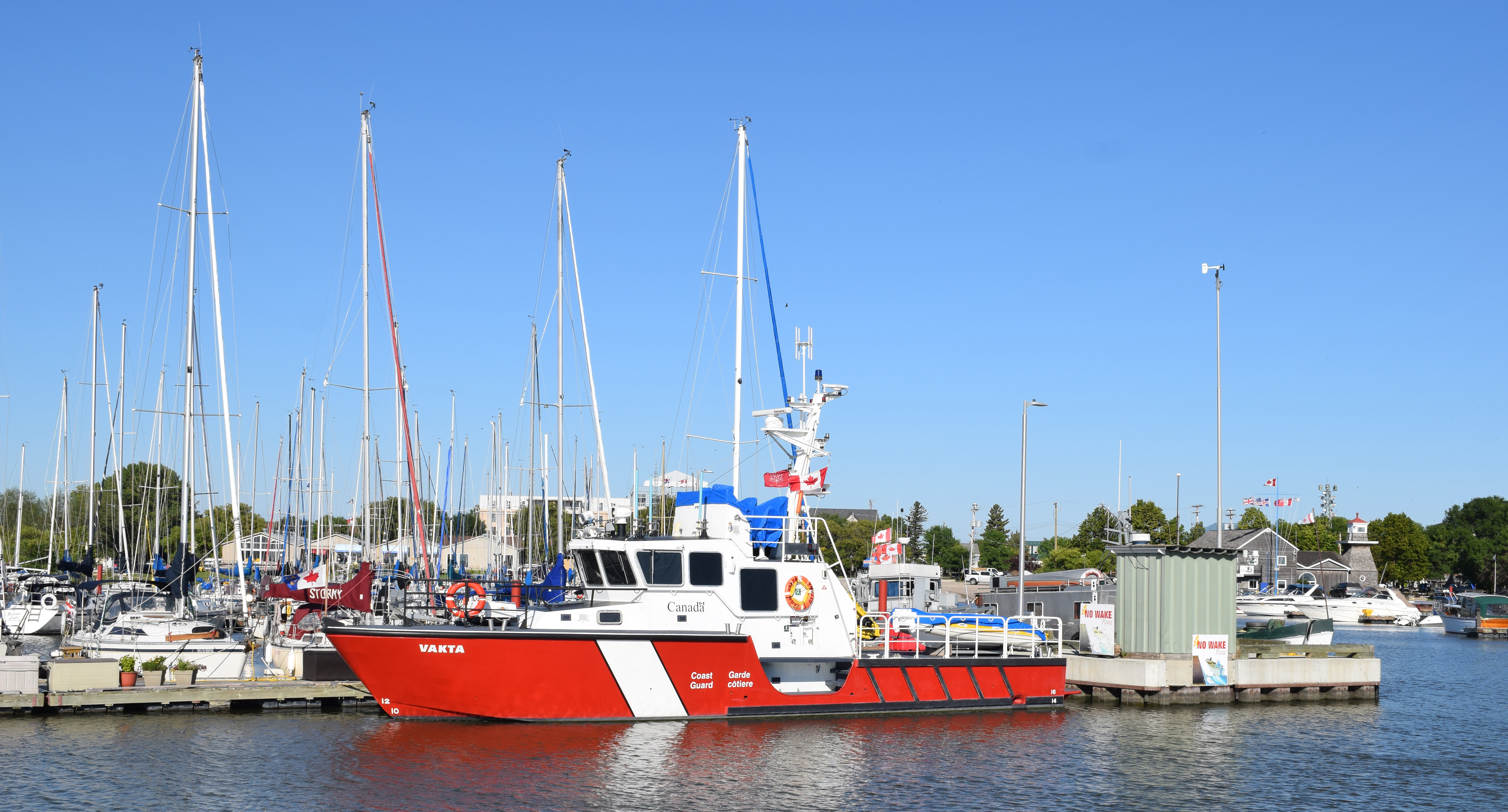 The Canadian Coast Guard Ship in Gimli Manitoba, the CCGS Vakta